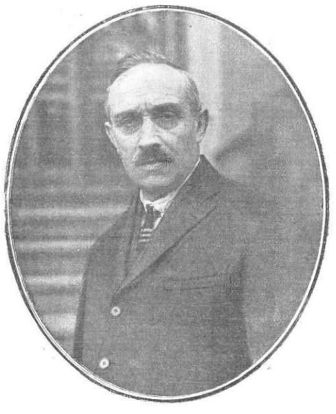 Juan Olazabal Ramery